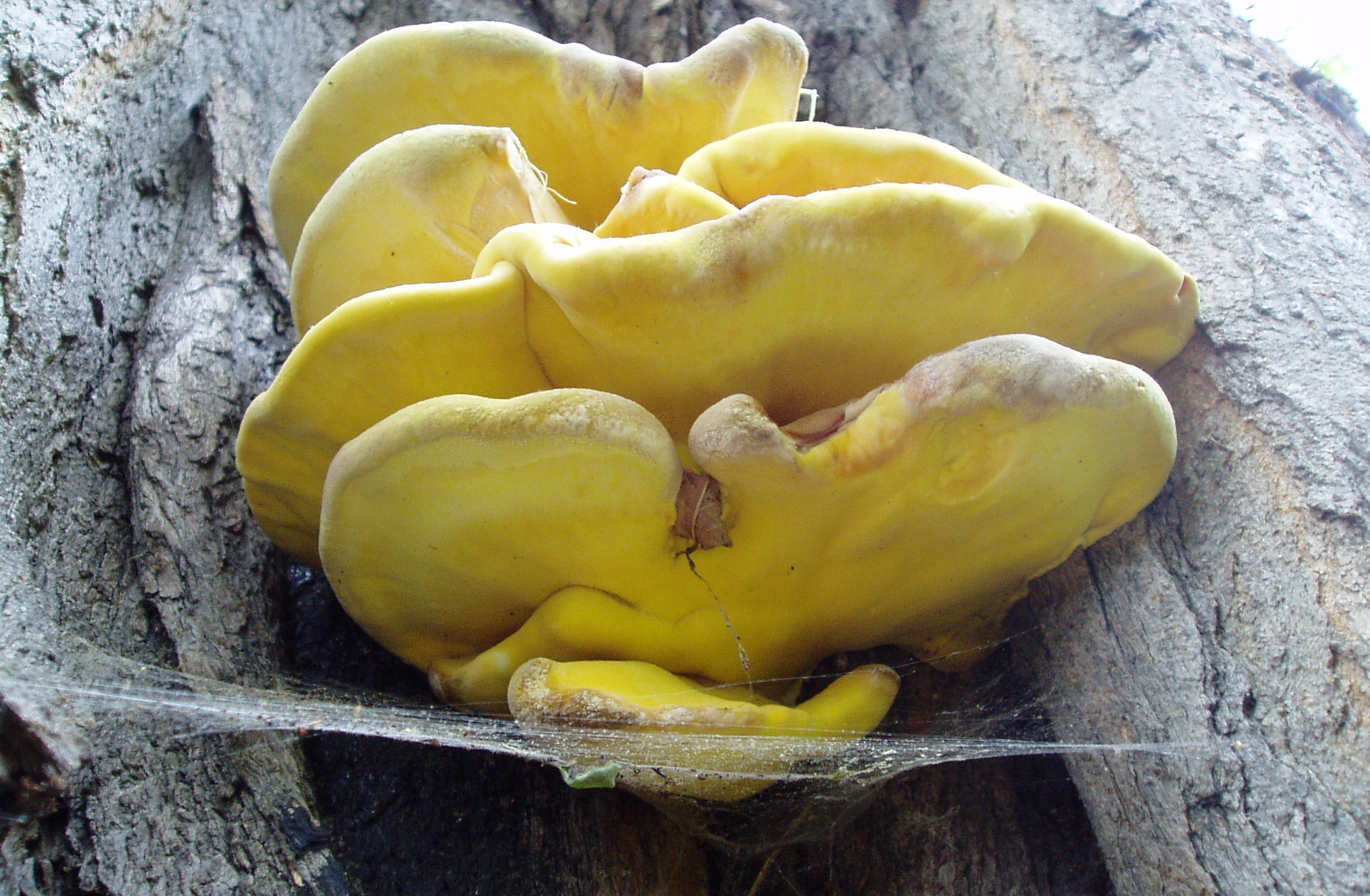 Spotted in West Ham Park, London, UK in May on a deciduous tree.